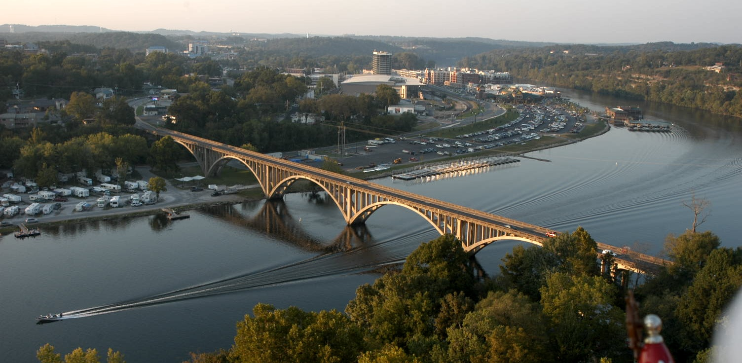 Aerial Photo of the Branson Svedrup Bridge over Lake Taneycomo Branson Landing in Background